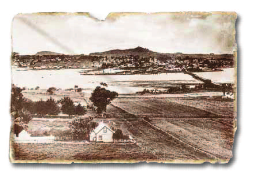 Image of Manukau Harbour and Onehunga from Mangere Bridge including Maungakiekie (One Tree Hill), prior to the urbanisation of Onehunga.